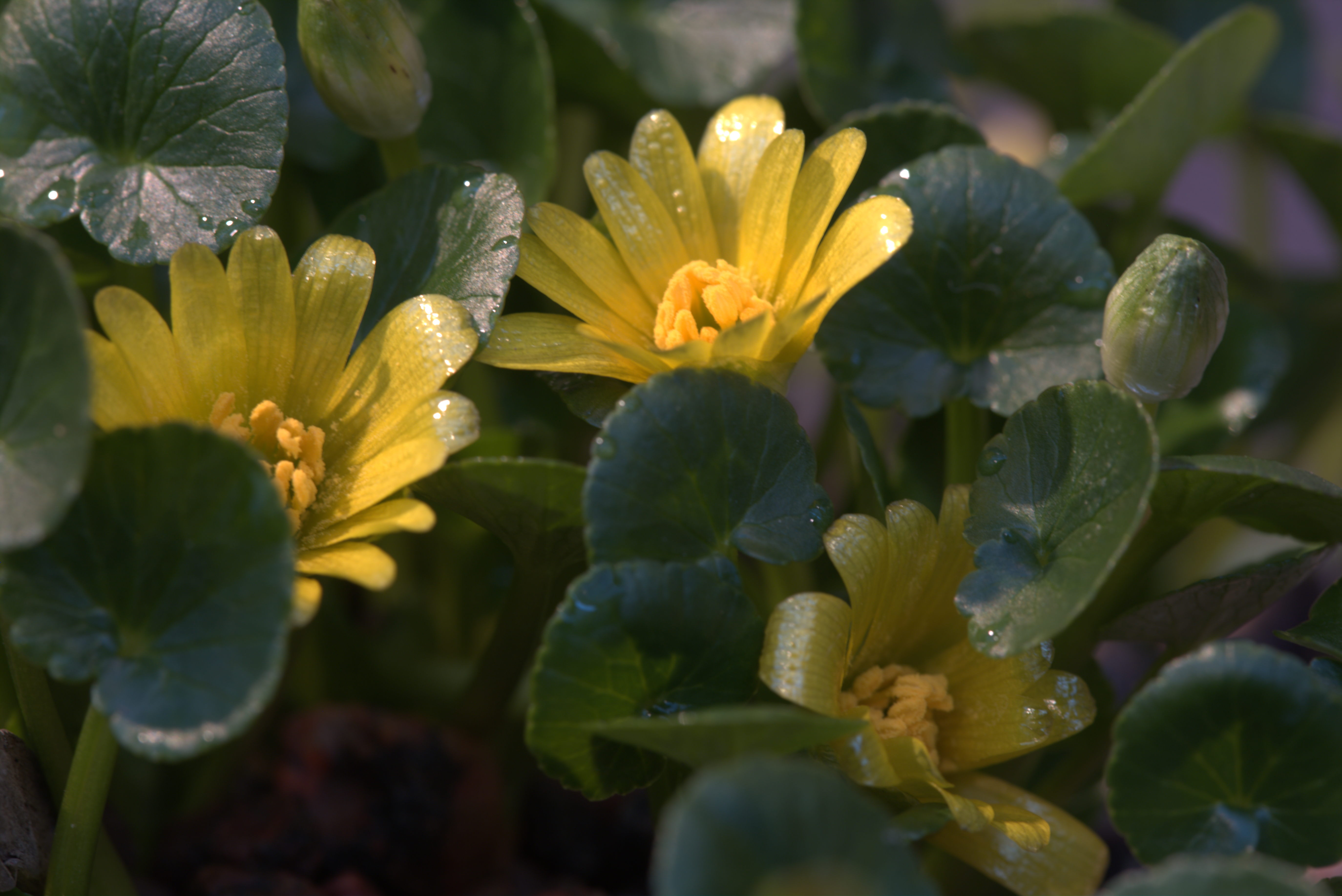 Ficaria ficarioides (sign: Ranunculus aff. ficariodes) in Gothenburg Botanical Garden. Plant id: 2003-2003/1 p W -- T4Z(2)